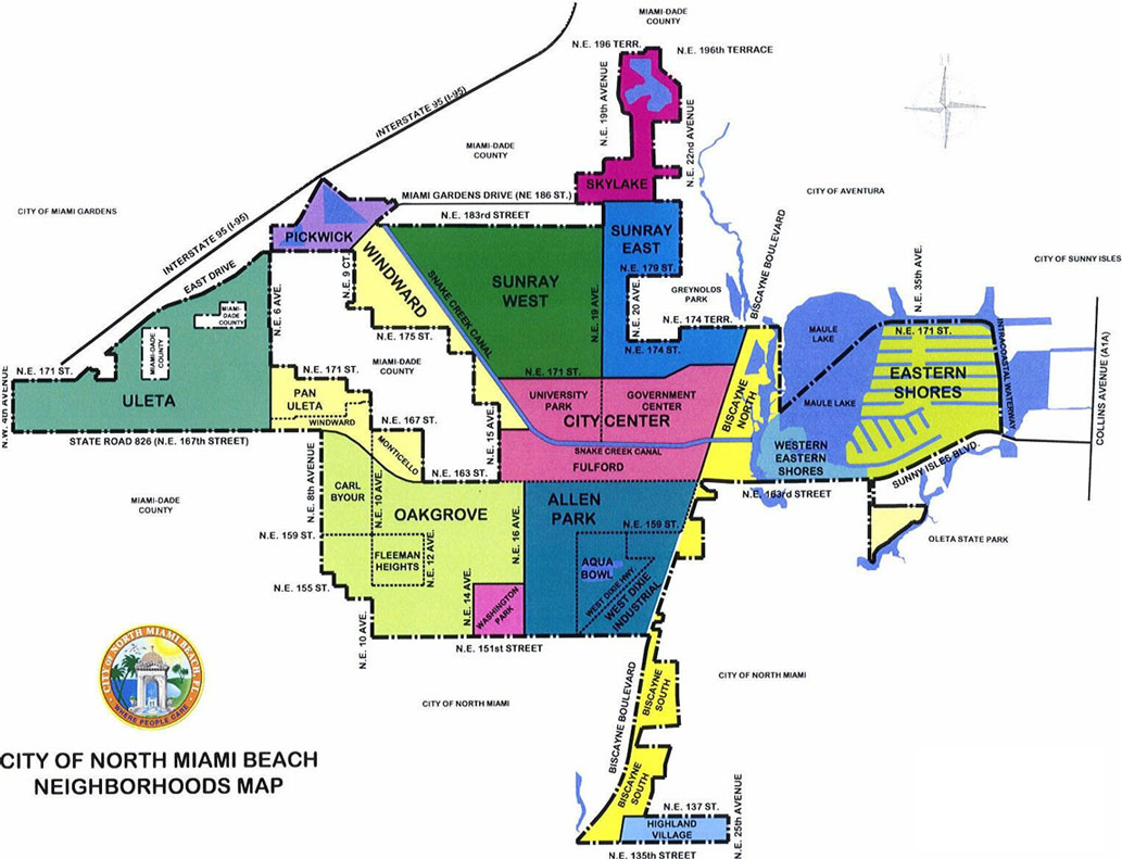 Map of neighborhoods in The City of North Miami Beach, Florida.